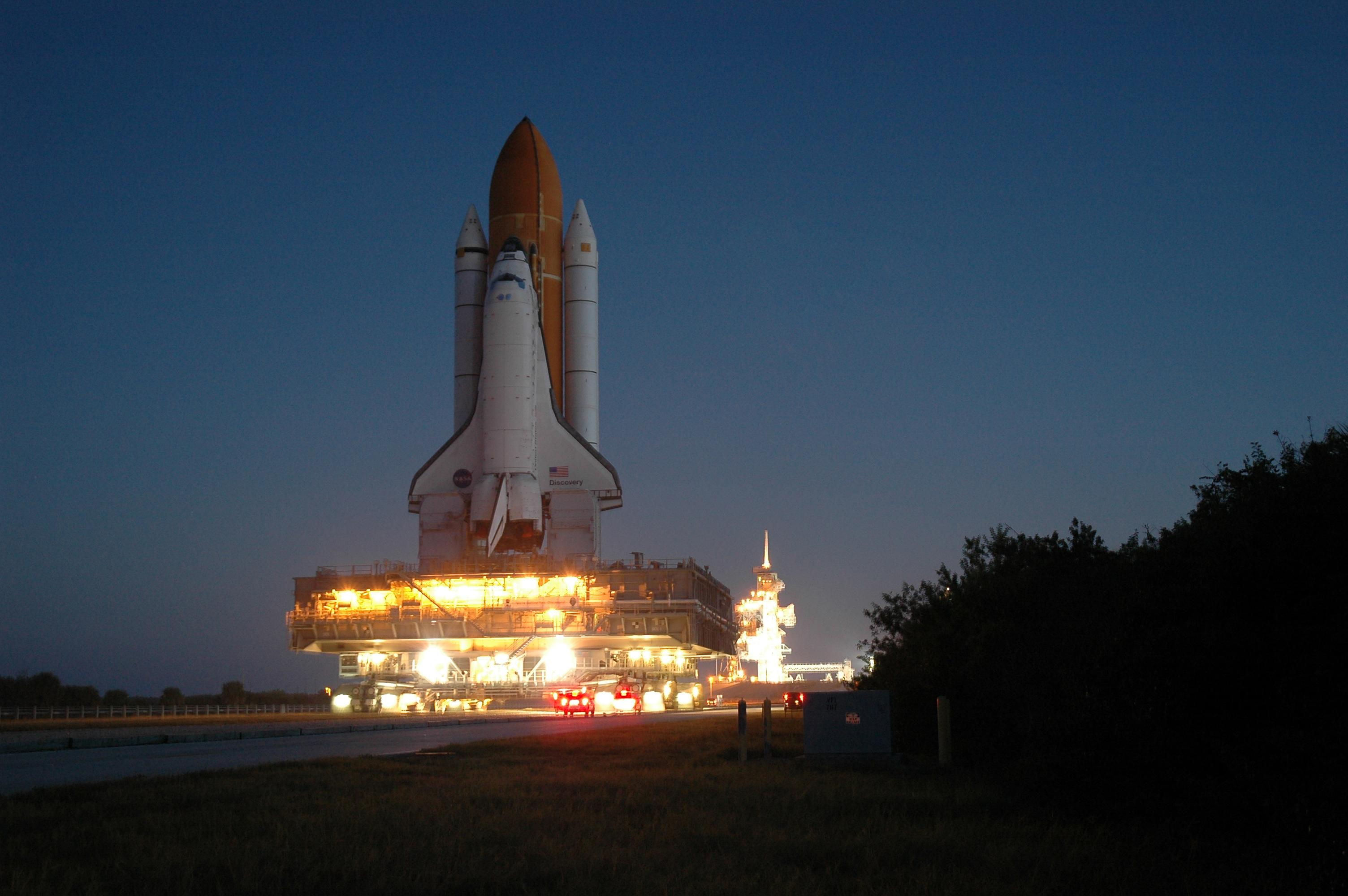 PHOTO NO: KSC-06PD-2474 KENNEDY SPACE CENTER, FLA. -- Space Shuttle Discovery is well on its way on the long, slow journey from high bay 3 of the Vehicle Assembly Building to Launch Pad 39B and launch of mission STS-116. The mission is No. 20 to the International Space Station and construction flight 12A.1. The mission payload is the SPACEHAB module, the P5 integrated truss structure and other key components. The launch window for mission STS-116 opens Dec. 7. Photo credit: NASA/Amanda Diller